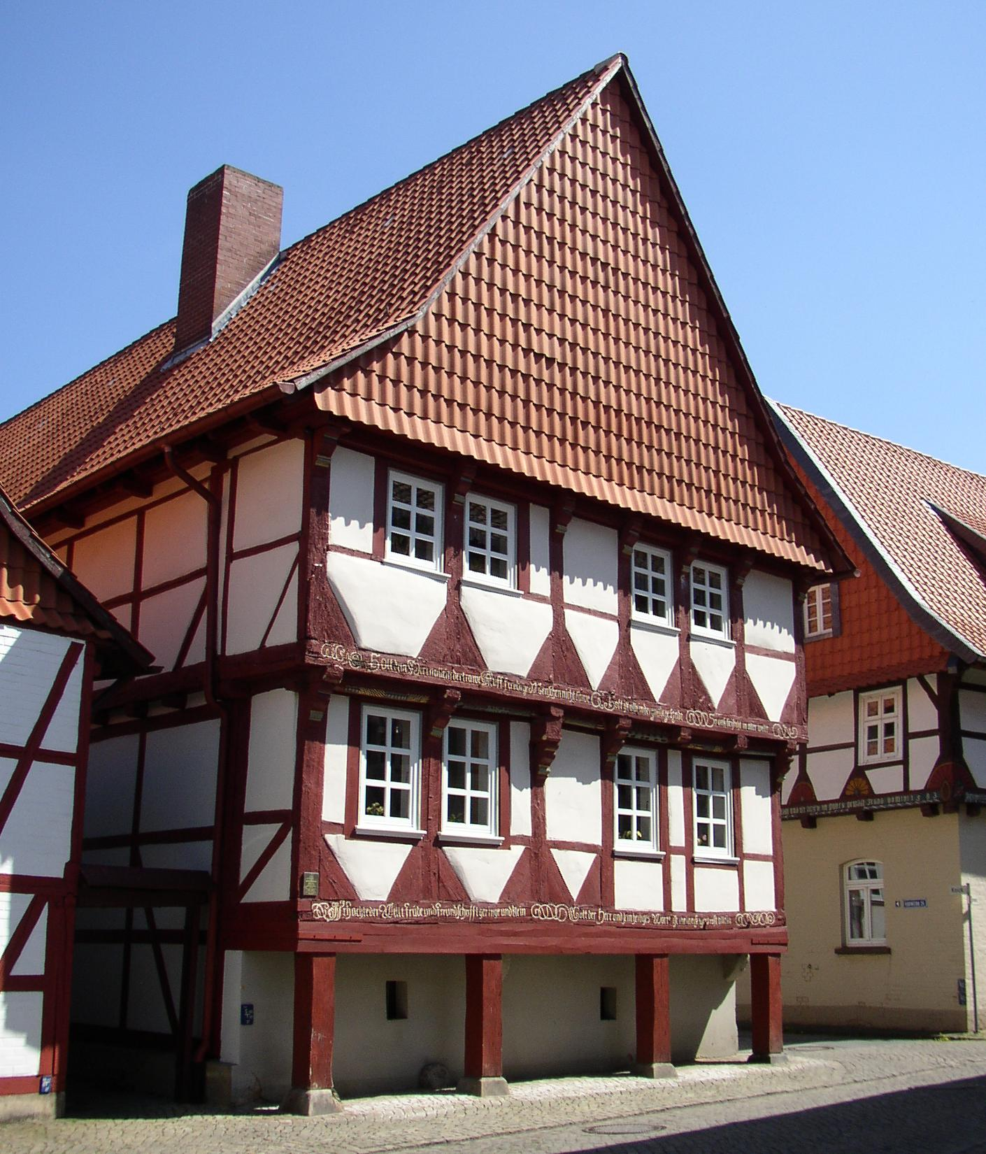 Former armoury in Hornburg in Lower Saxony, Germany